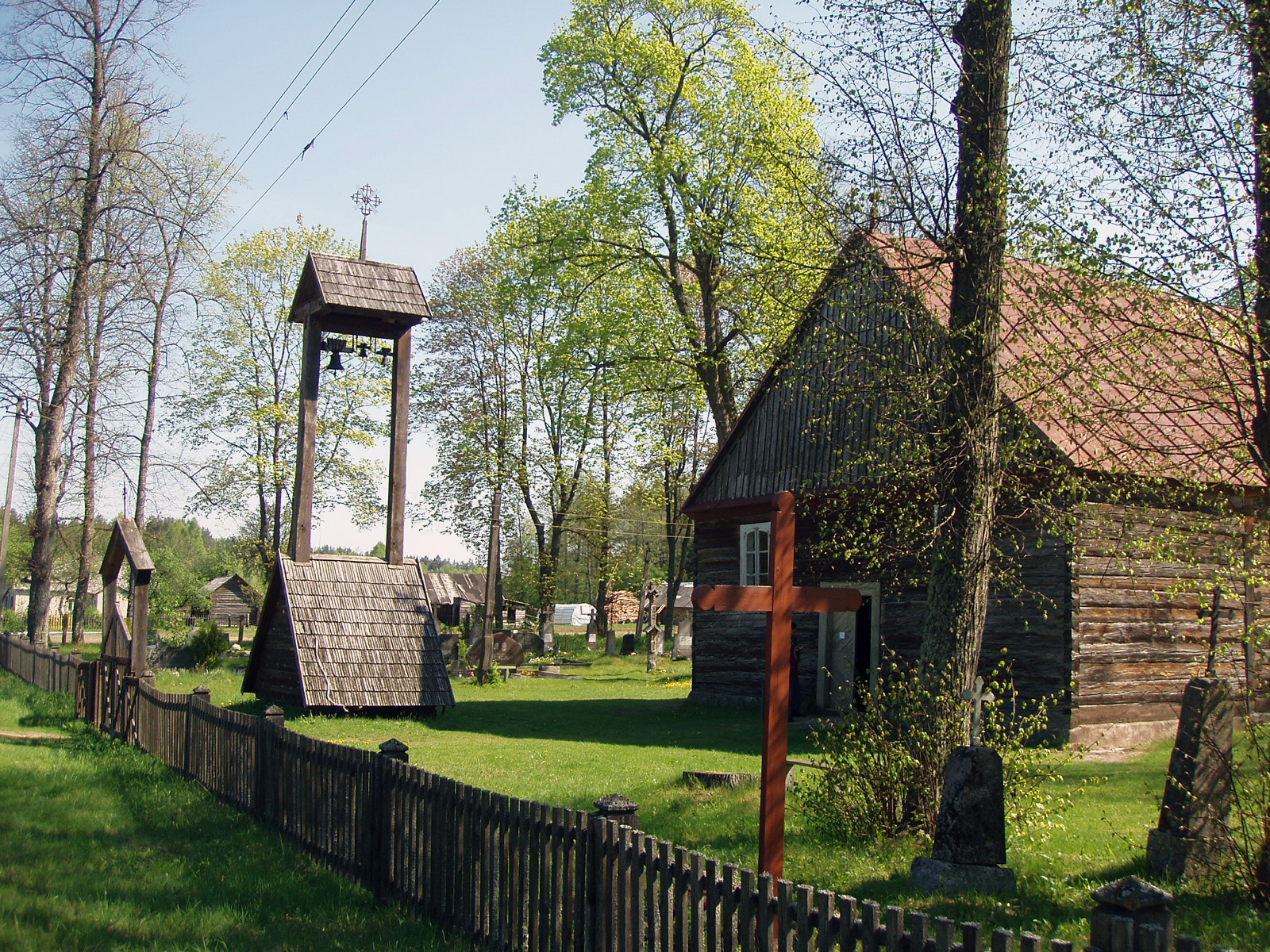 Akmuo church, Varėna district, Lithuania